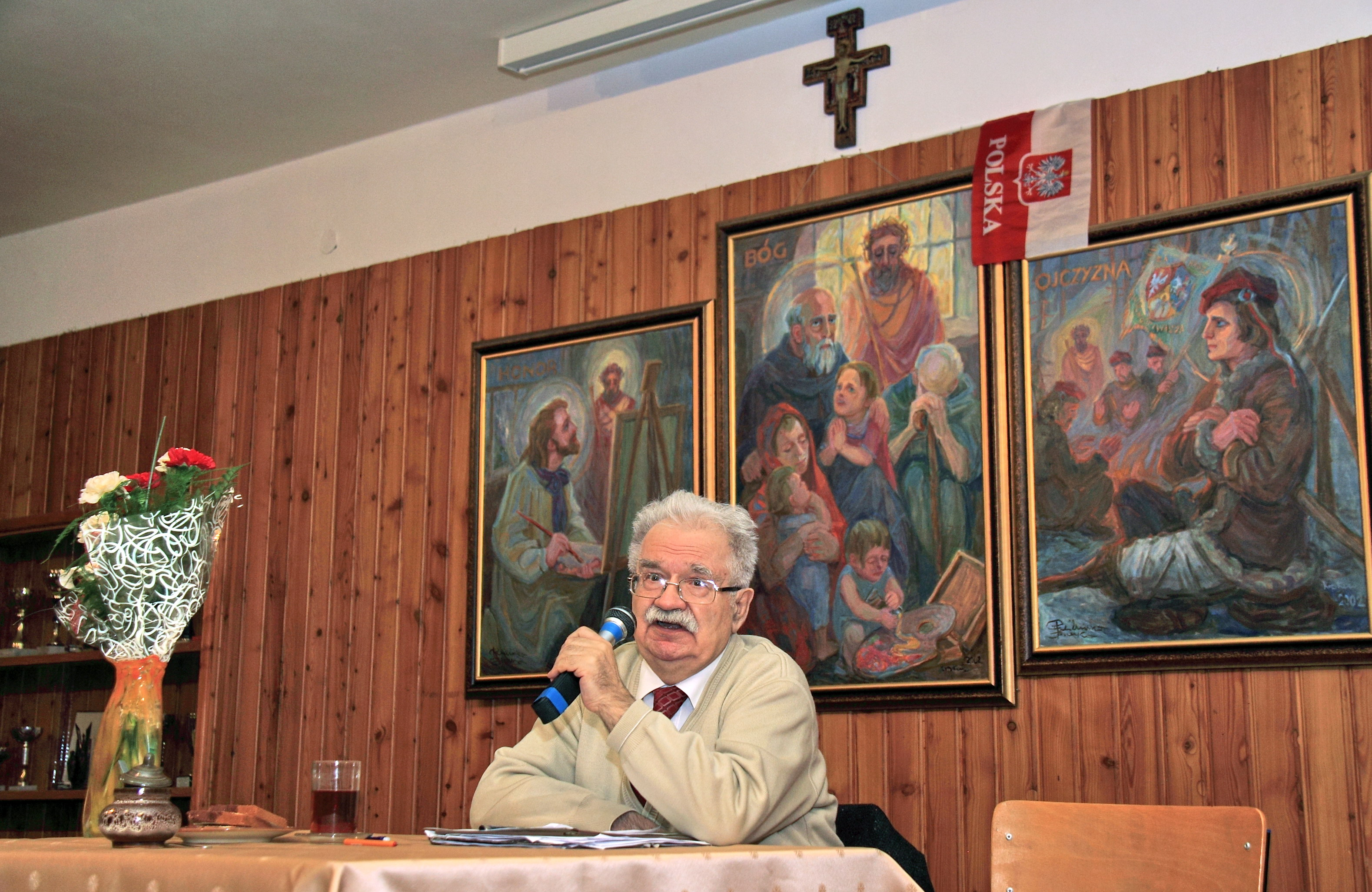 Jerzy Robert Nowak - Polish historian, publicist, assistant professor of political science. Krakow, the parish of St. Albert, 10 February 2013